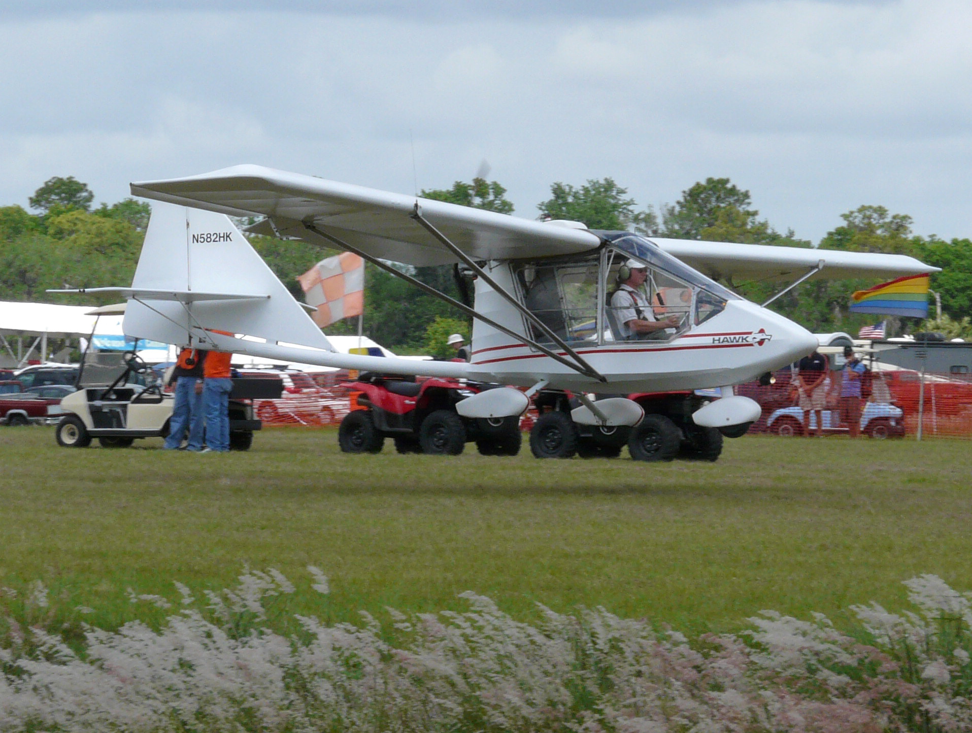 Hawk Arrow II ultralight, Sun 'N Fun airshow, Lakeland, Florida